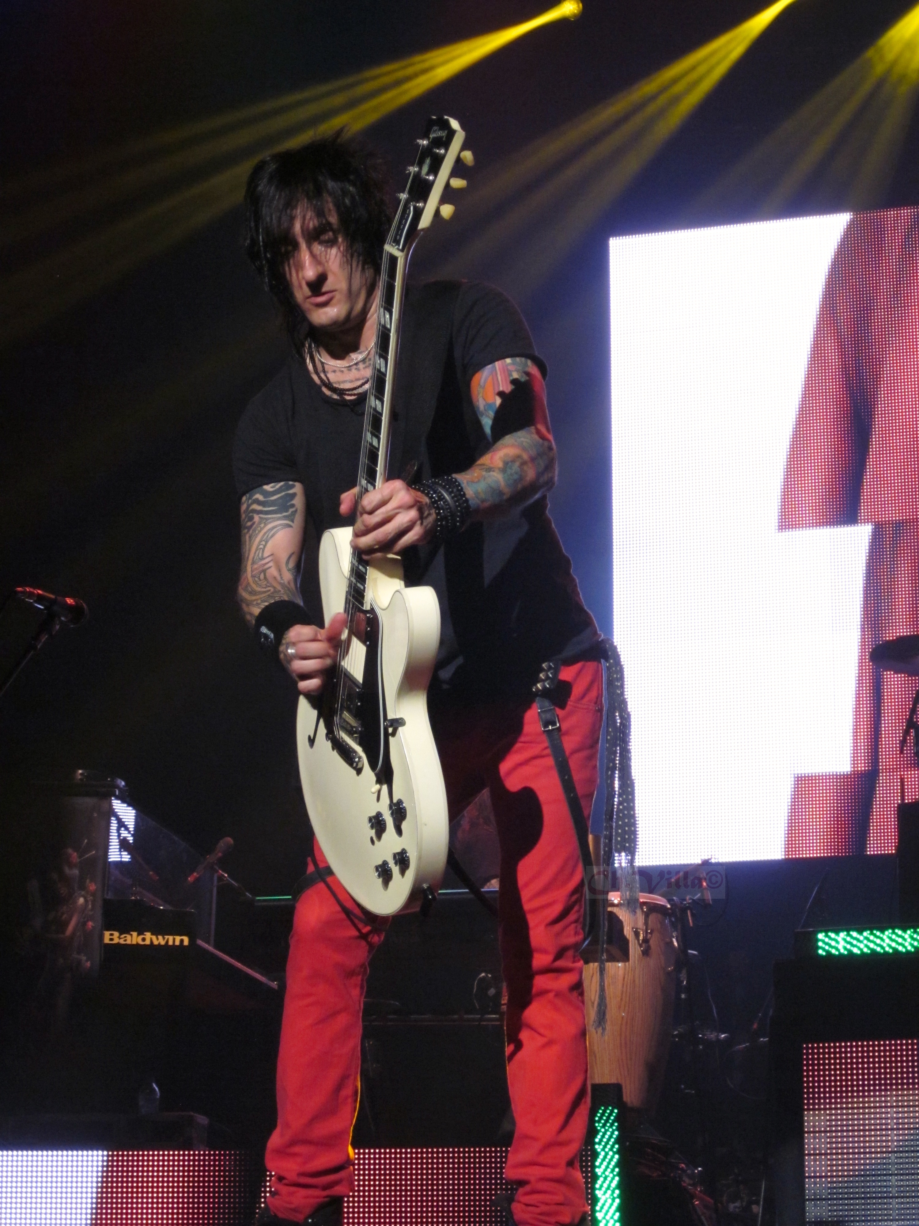 Fortus performing with Guns N' Roses in 2013